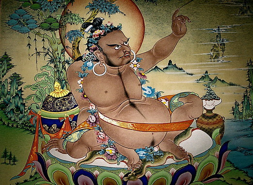 Virupa- 9th Century Buddhist Mahasiddha